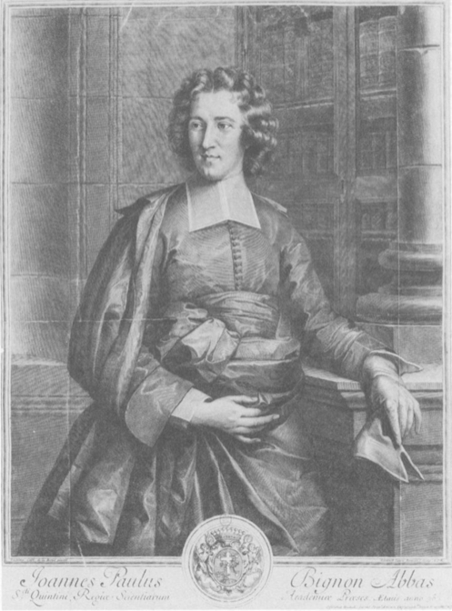 Portrait of Abbe Jean-Paul Bignon (1662-1743), President of the Academie Royale des Sciences. Portrait by Lucretia Cath. de la Roue, engraved by Edelinck, 1700.